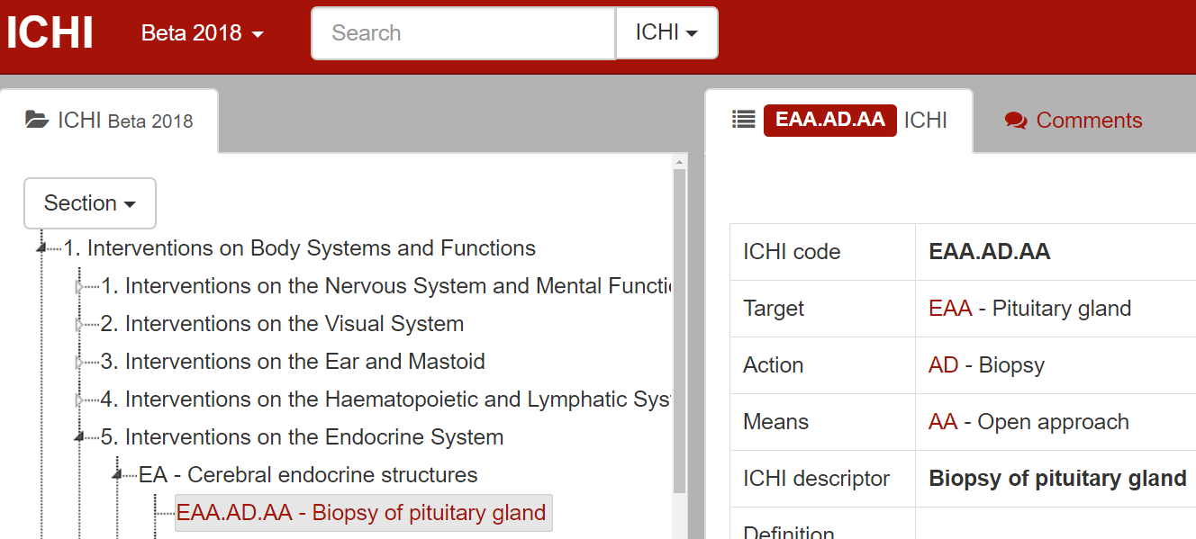 example